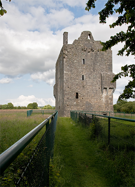 Castles of Munster: Ballymalis, Kerry This tower house on the east bank of the River Laune was built in c.1600. It was granted to Sir Francis Brewster after its confiscation in 1677, when it passed to Alexander Eager.